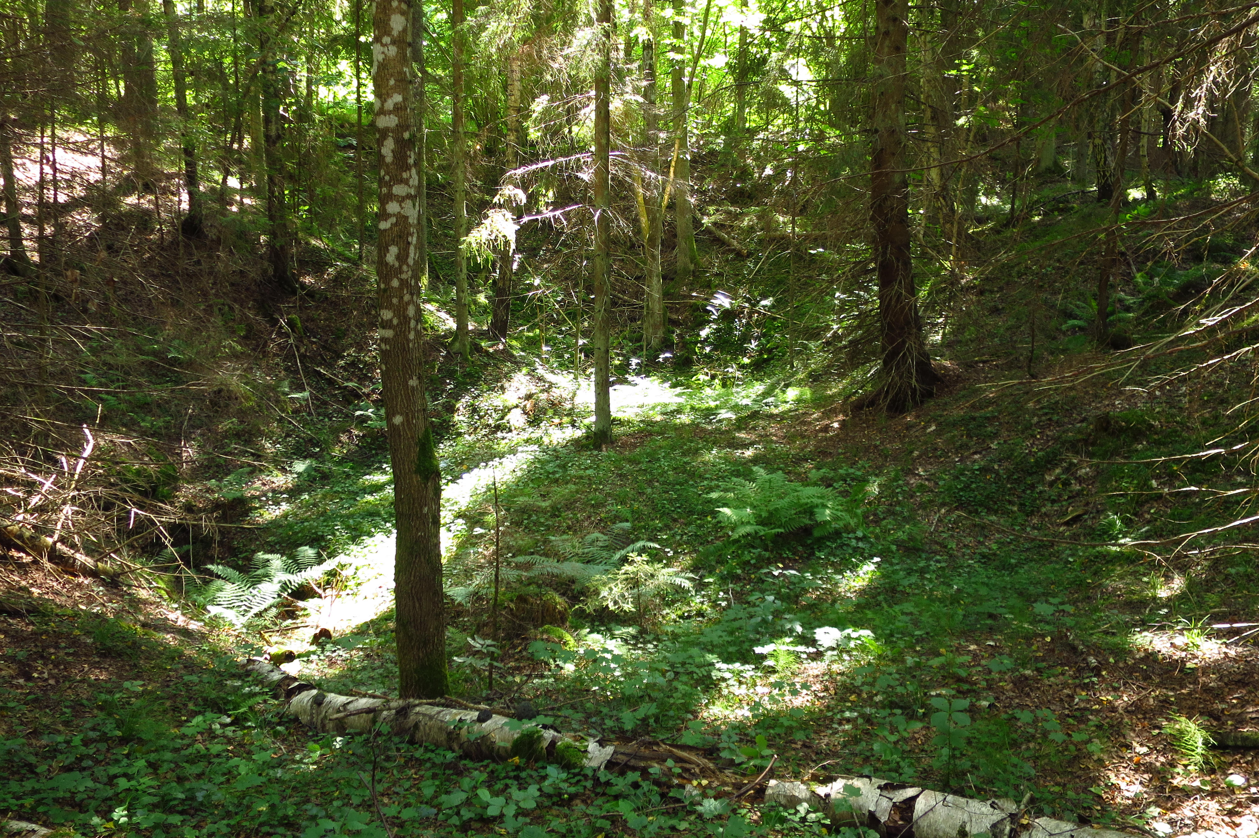 Küdema kurisu augustis Lepakõrva ja Küdema kurisute kaitseala